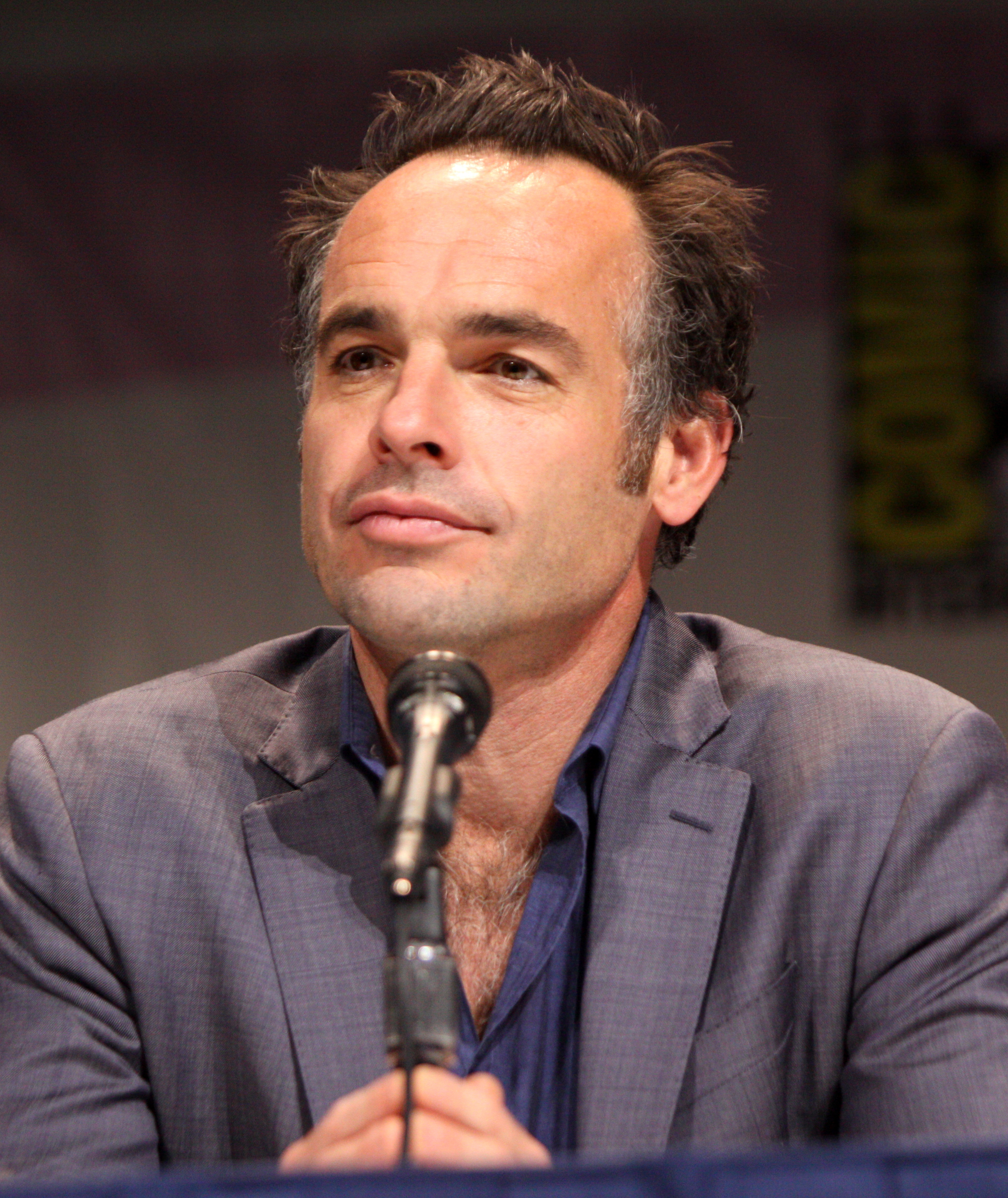 Paul Blackthorne speaking at the 2013 WonderCon in Anaheim, California on March 31, 2013.